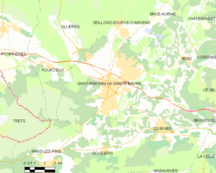 Map of French municipality Saint-Maximin-la-Sainte-Baume